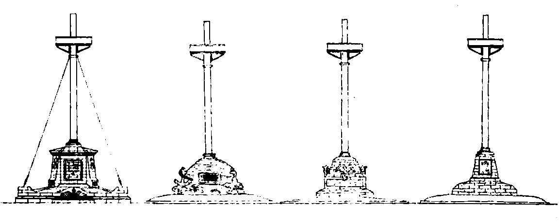 Four designs by unnamed architects for the proposed USS Maine Mast Memorial in Arlington National Cemetery, in Arlington County, Virginia, in the United States. The Maine exploded in Havana Harbor, Cuba, under mysterious circumstances in February 1898, precipitating the Spanish-American War. Congress approved the memorial in 1910, and required that the main mast of the vessel be erected as part of the memorial. The Maine was salvaged from September 1910 to March 1912. In 1912, the U.S. Department of War held an internal competition to design a memorial. Four sketches were turned over to the U.S. Commission of Fine Arts (CFA) for its advice. The CFA rejected all four preliminary designs, and told the War Department that all four were of such poor quality that the Secretary of War would be better off choosing a designer of national stature. The Secretary of War (on the advice of the CFA again) chose architect Nathan C. Wyeth.